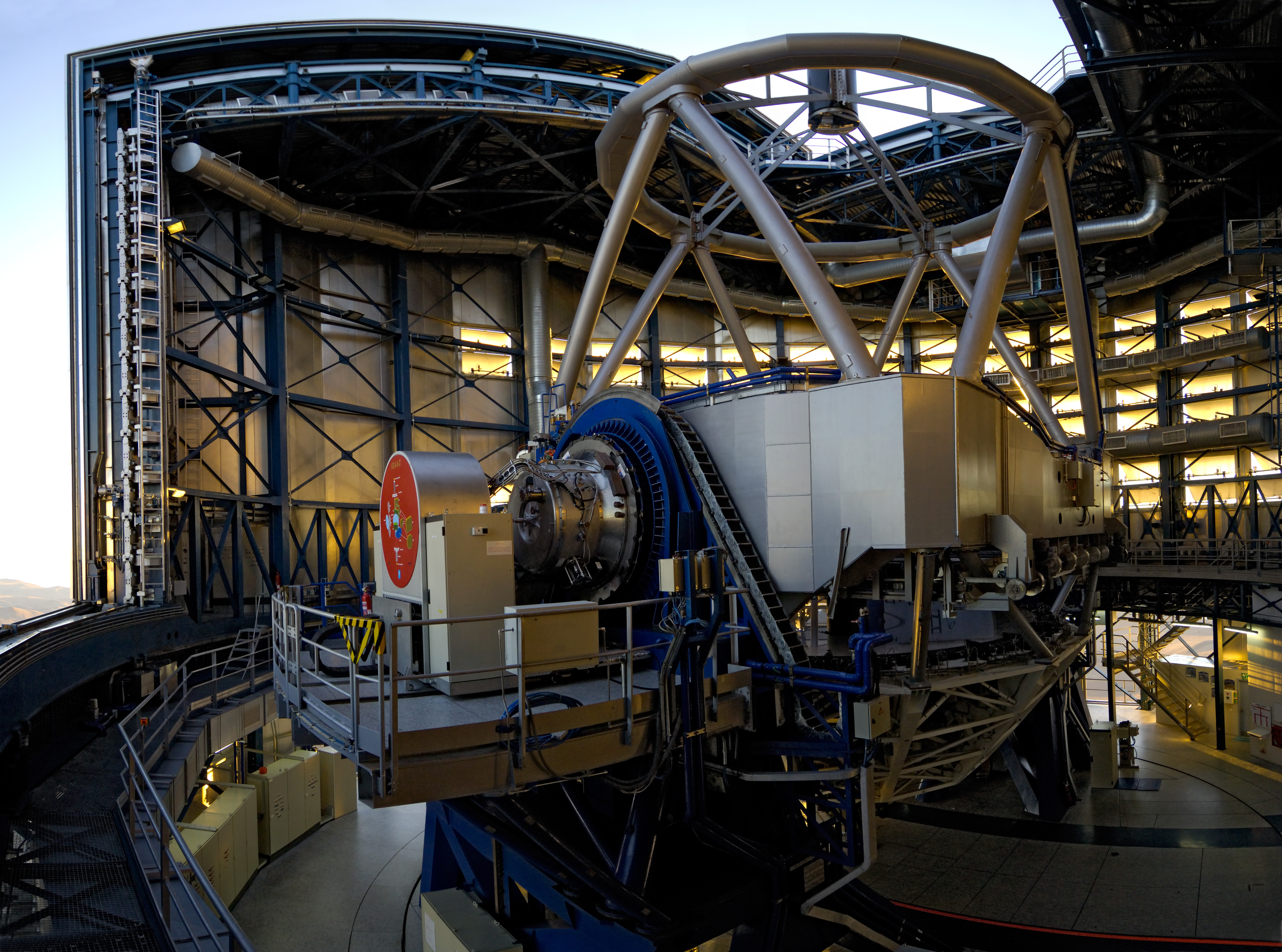 This image shows the interior of one of the four 8.2-metre Unit Telescopes at ESO’s Very Large Telescope (VLT) in Paranal, Chile. Designated Unit Telescope 1, or UT1, and named Antu, this complex science machine has been in operation at Paranal since 1999. Just before sunset, technicians retract UT1’s windshield and work to finalise the preparations at the telescope for the night-time observation run. During the day, the enclosure is kept shut to protect the delicate and valuable scientific equipment inside, as well as to ensure minimal temperature differences between the telescope and the atmosphere at opening. To the left of the telescope’s main mirror housing, in the centre of the image, is the Infrared Spectrometer And Array Camera (ISAAC), which was, until recently, attached to this instrument. It has now been moved to another of the Unit Telescopes, UT3 or Melipal.